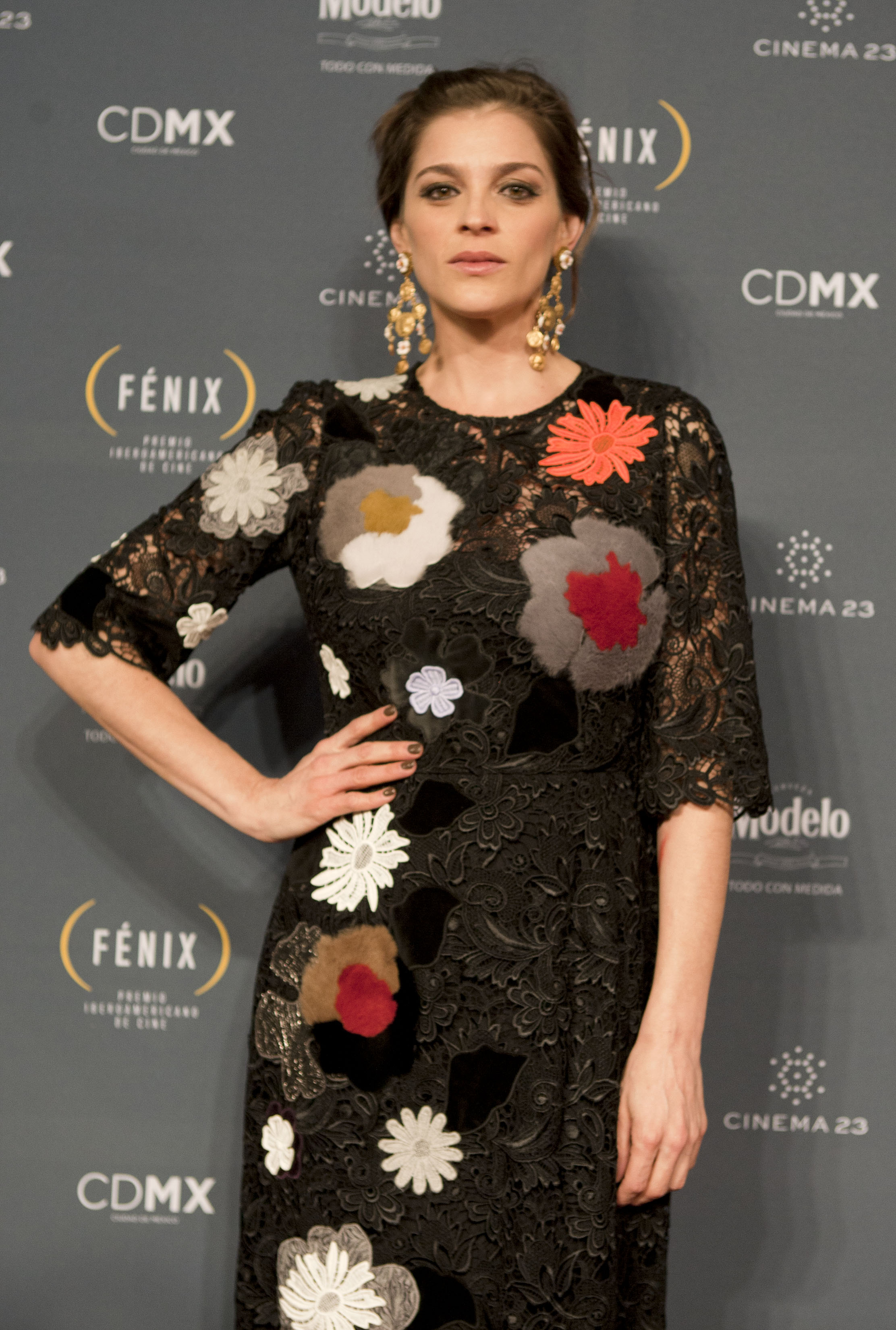 30 October, 2014. Fenix Awards ceremony on Mexico City.